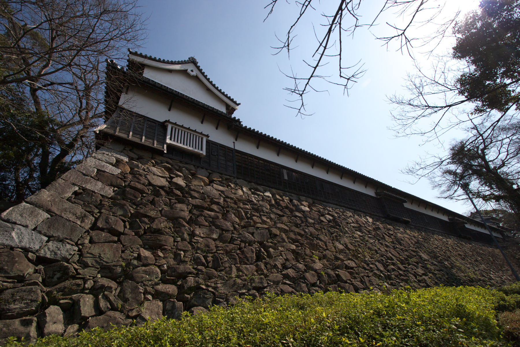 Tamon turrets, Fukuoka castle, in Fukuoka, Japan.